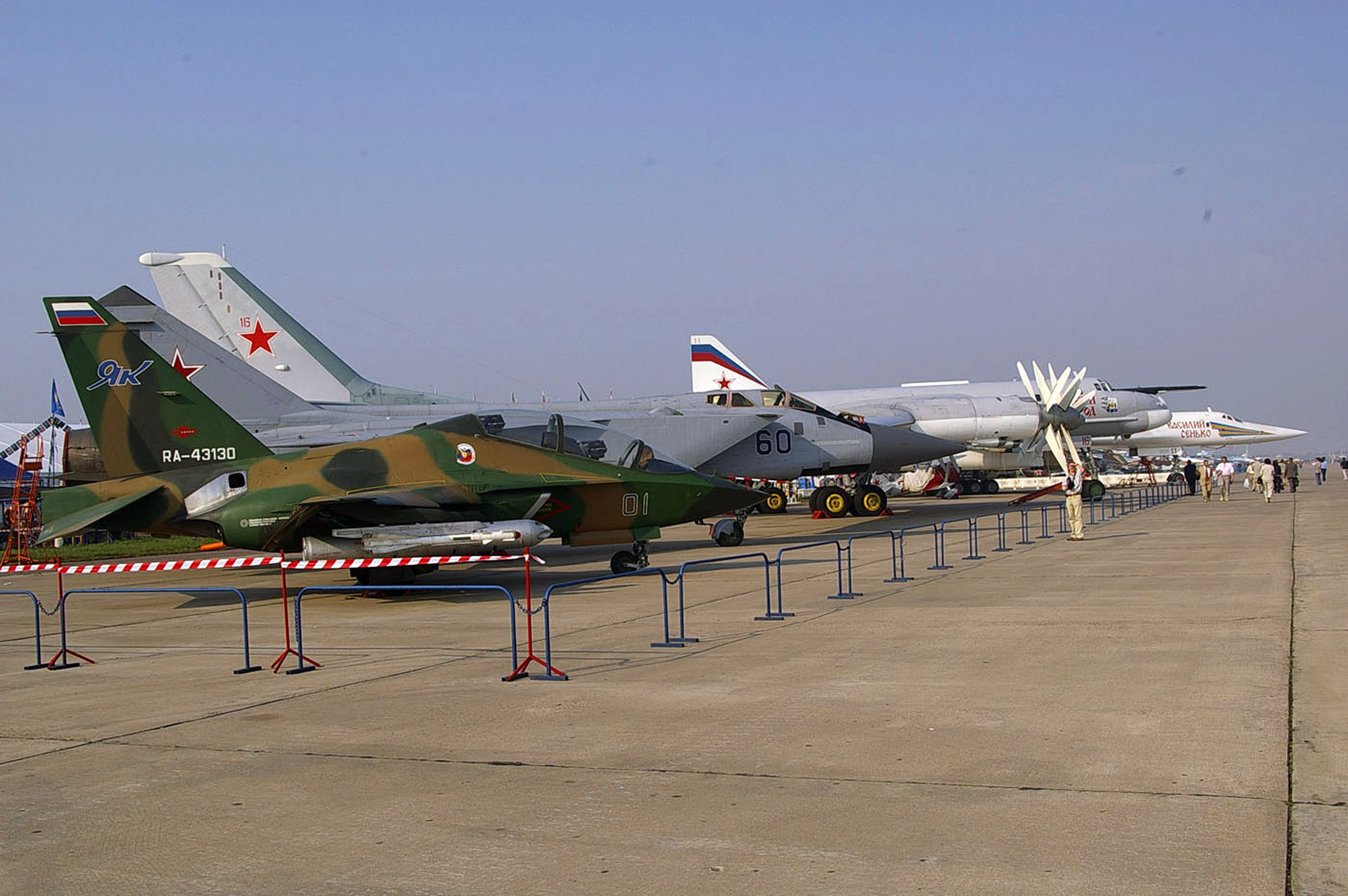 Aircraft from all over the world are on display at the Moscow International Air Show through Aug. 26 at Ramenskoye Airfield in Zhukovsky, Russia. The show includes Department of Defense participation of static displays and aerial flight demonstrations. The air show is one of the premier events of its type in the world.